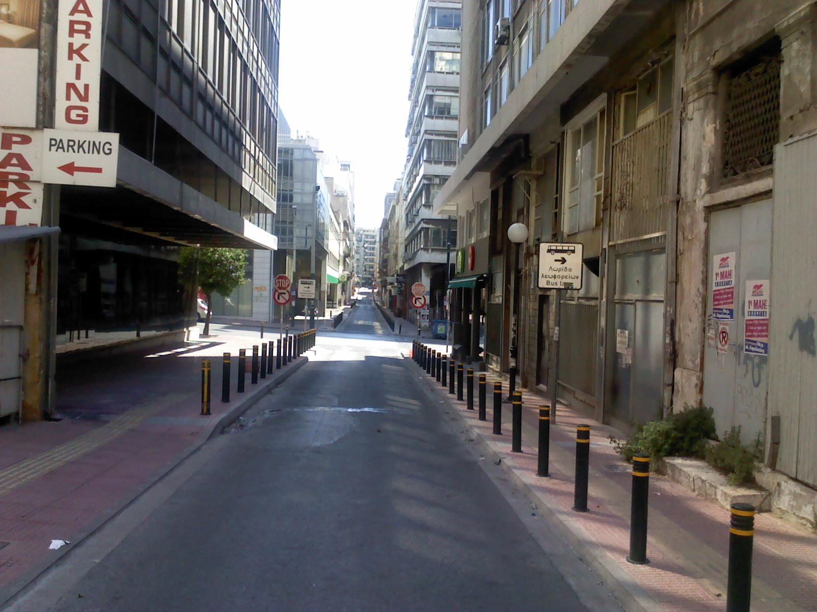 Odos Notara in Troumpa